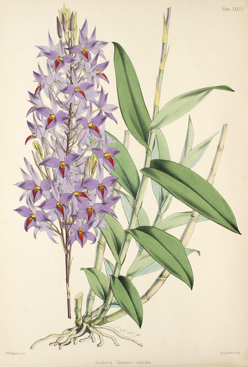 Illustration of Barkeria skinneri